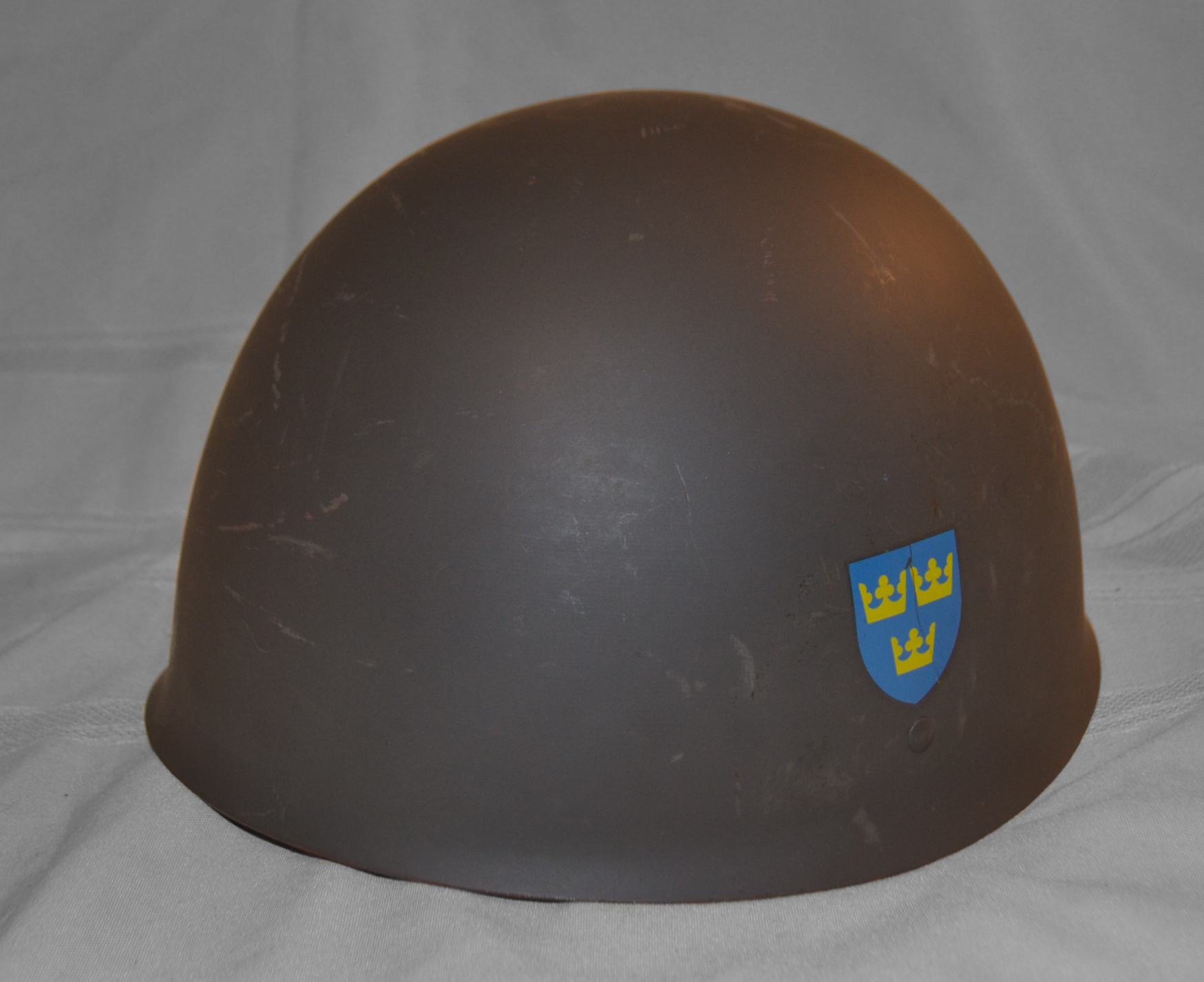 M37/65 Helmet